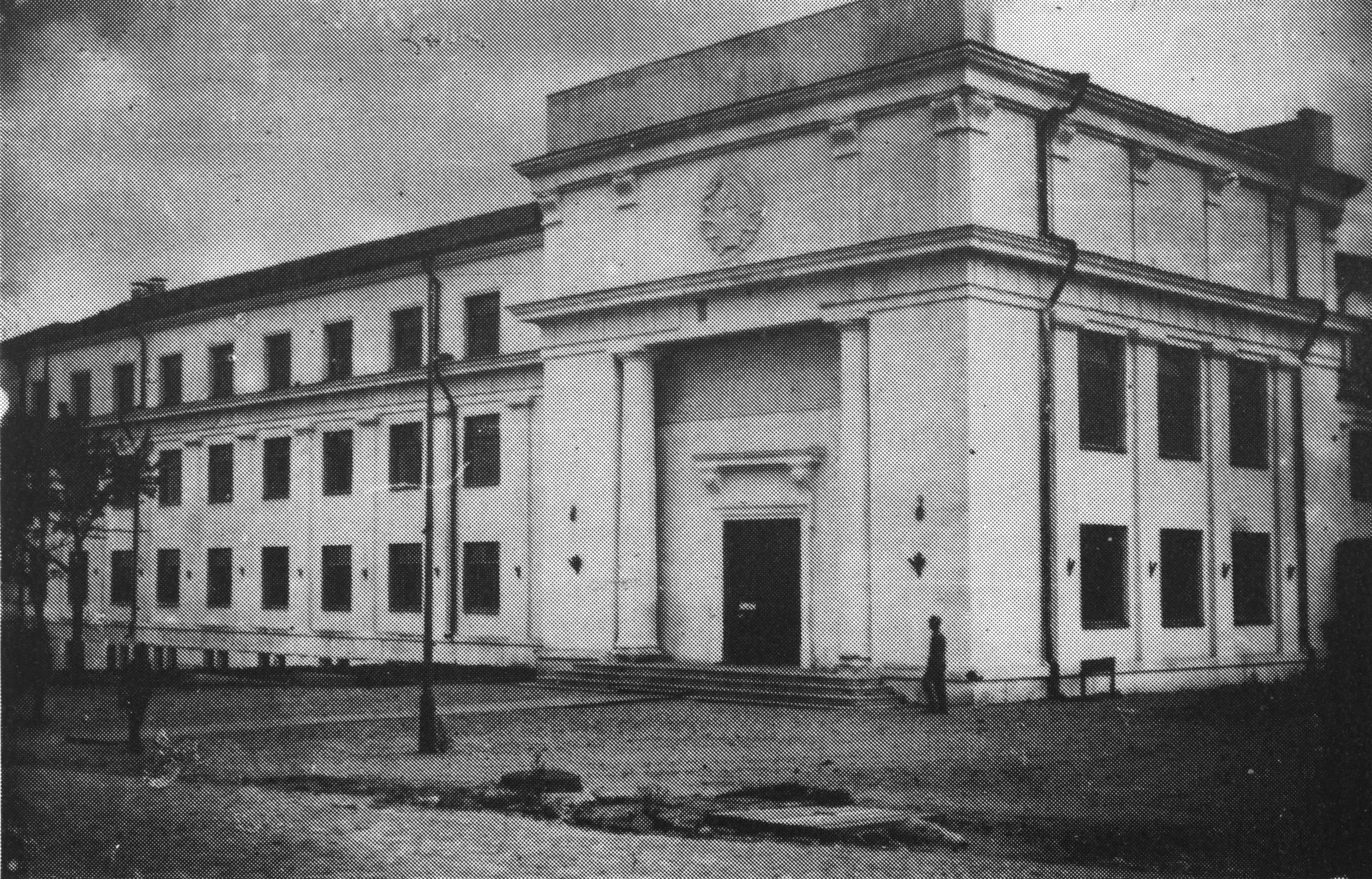 The palace of Otto Ville Kuusinen in Äänislinna (Petrozavodsk).